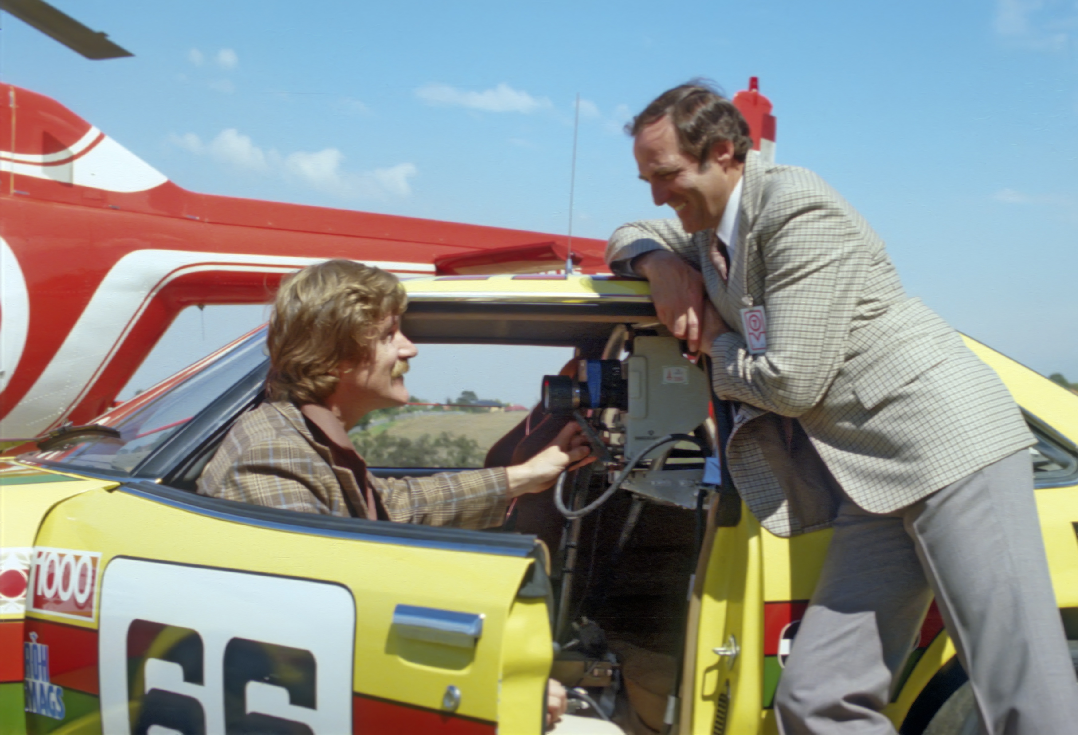 ATN Channel Seven Sydney engineer John Porter with race car driver Peter Williamson and the Racecam camera system Porter's team developed.